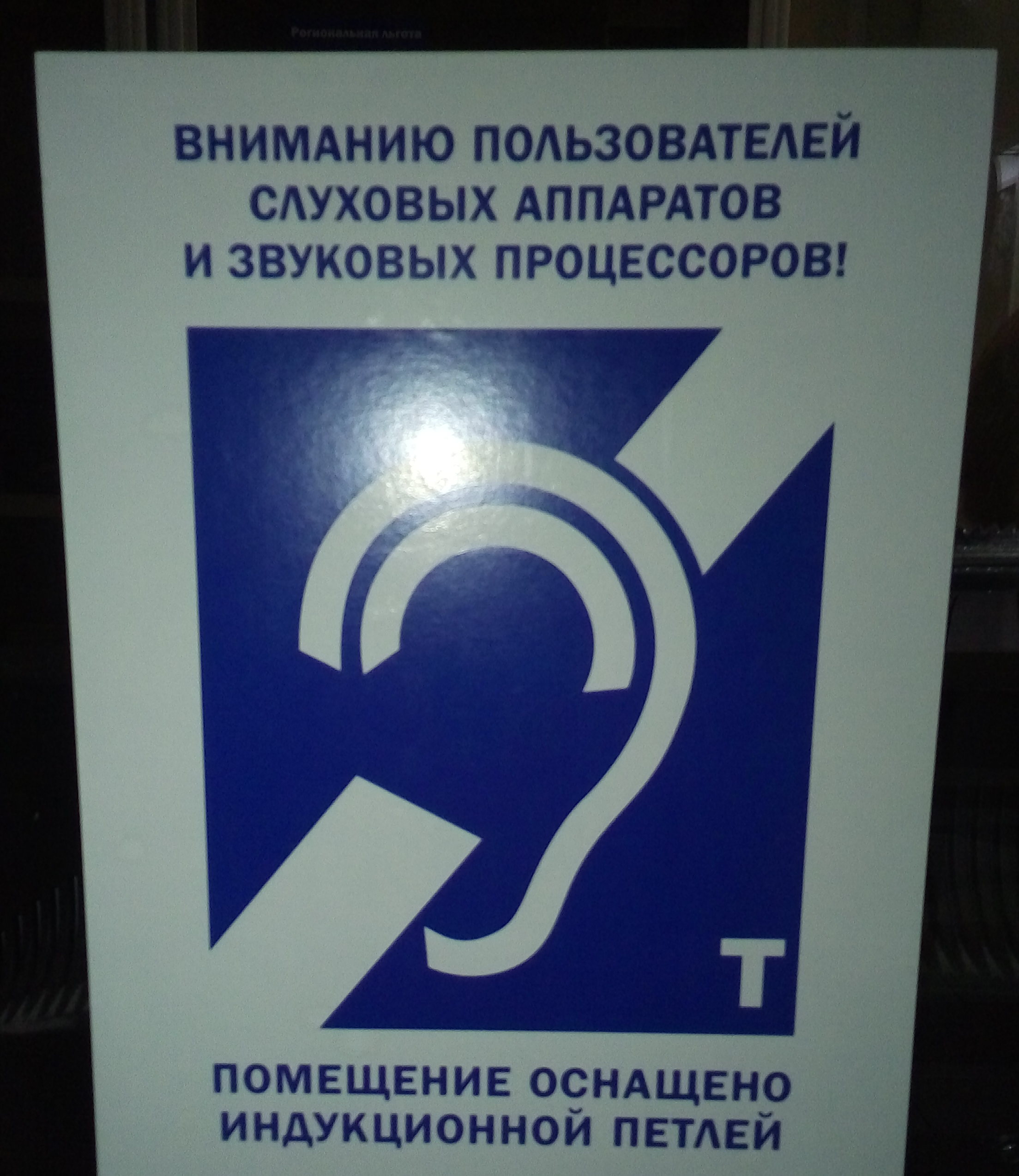 Hearing induction loop sigh russian